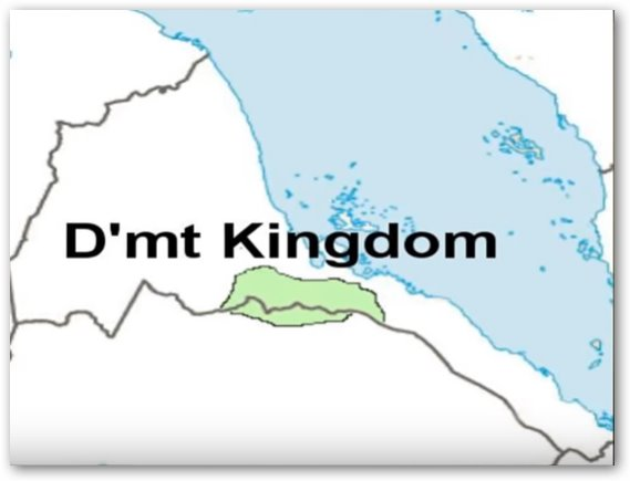 D'mt (Daamat) Kingdom, a civilization in northern Ethiopia and southern Eritrea.